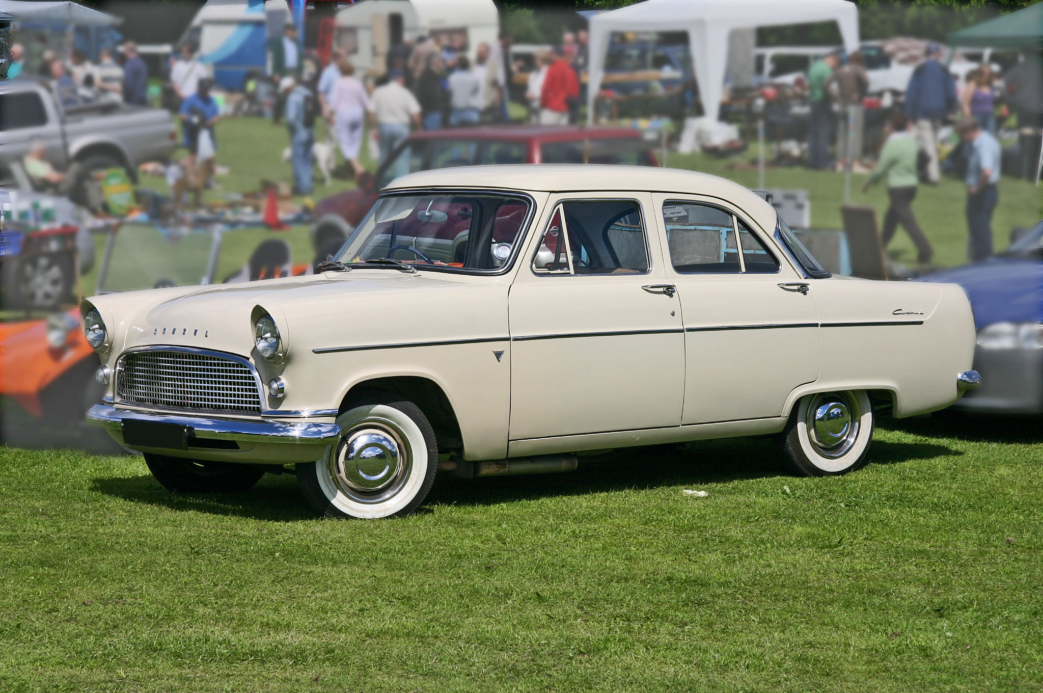 Ford Consul MkII (204E): The 1956 Zephyr, Zodiac and later Consul shared the same Colin Neale designed body, but the Consul was shorter as it only had a 4 cylinder engine.